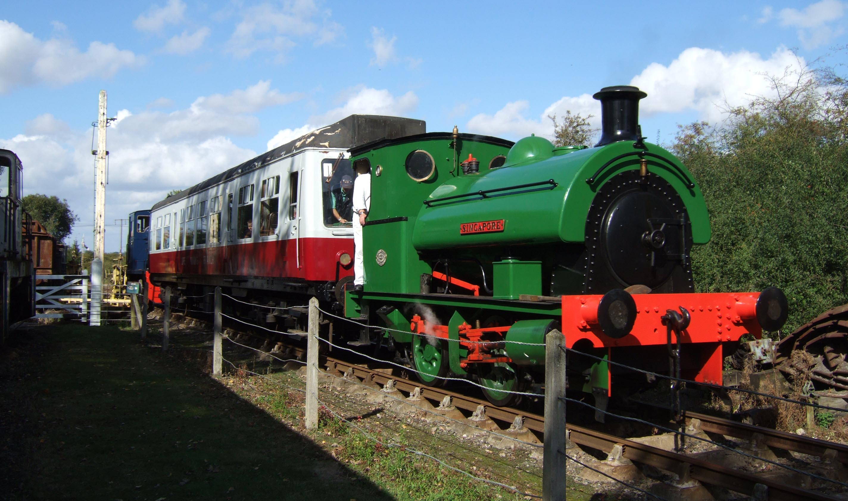 Passenger Train on the Rutland Railway. The steam locomotive is 'SINGAPORE' Hawthorn Leslie 0-4-0ST 3865 of 1936. At the back is Andrew Barclay 0-4-0DH 415 of 1957. 25th September 2005 (Camera - Fuji FinePix F10 Modified - Trimmed and file size reduced using Adobe Photoshop 5.0LE)